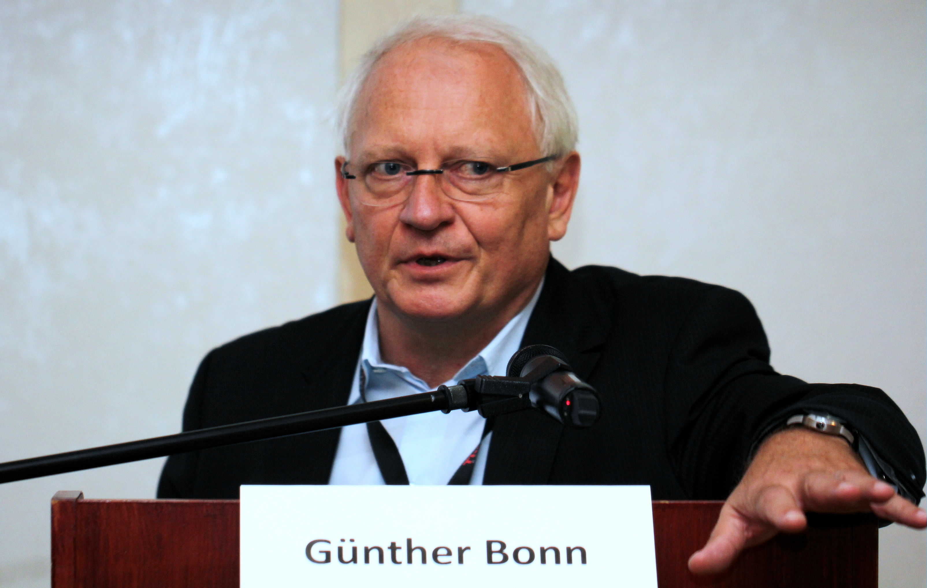 Günther Karl Bonn professor